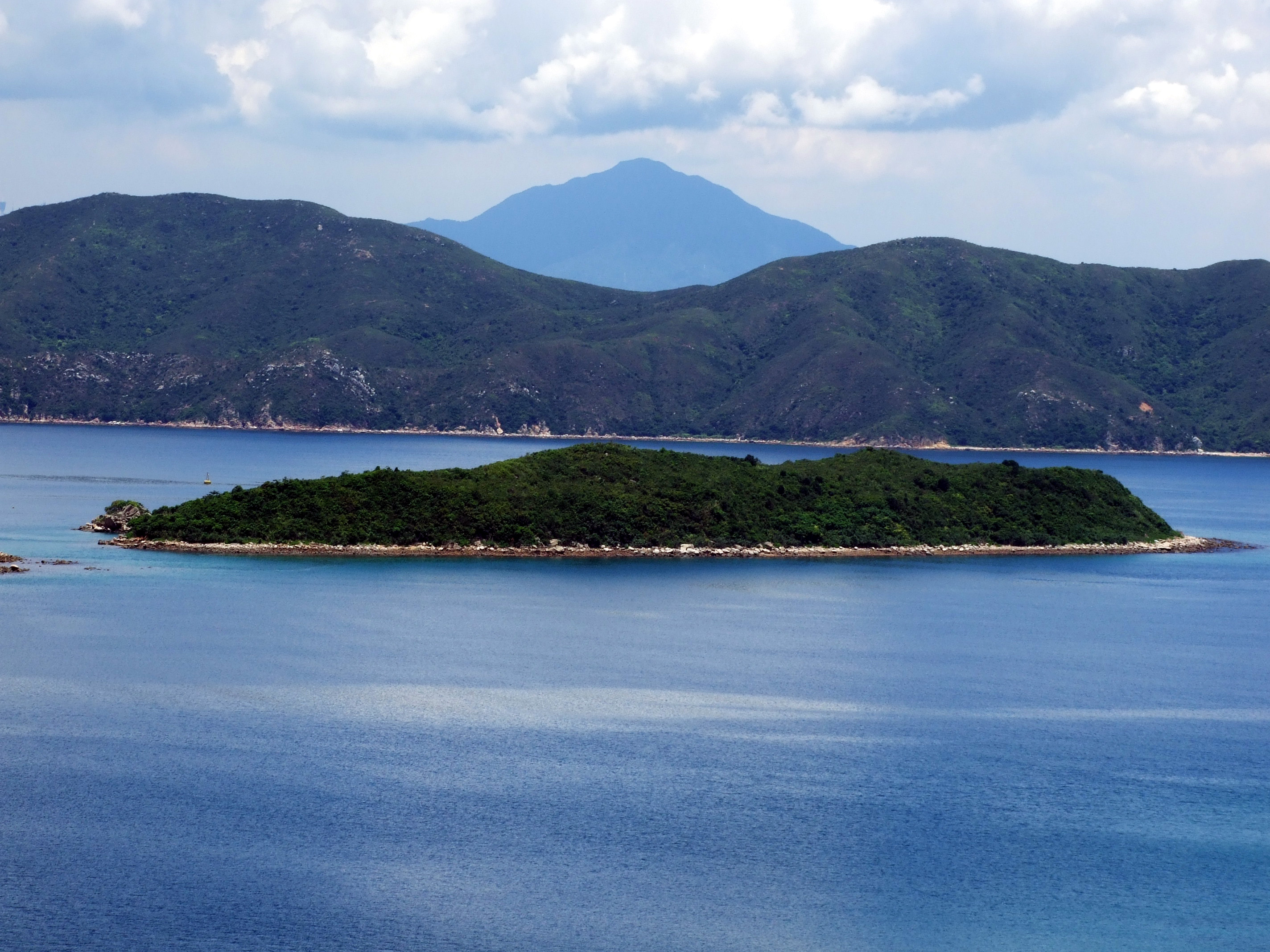 中文（香港）: 銀洲 (大埔區) The mountain in the background is Wutong Mountain, located in Shenzhen.